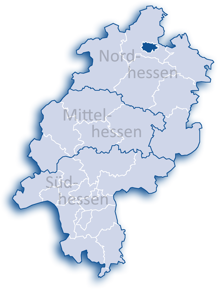 The map shows Kassel. An urban district in Hesse